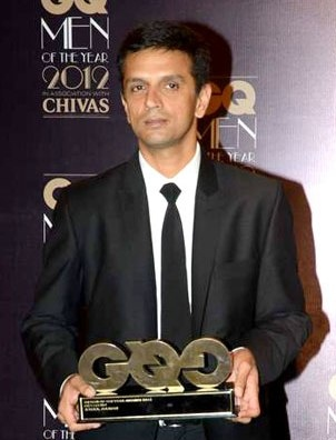 Rahul Dravid at GQ Men Of The Year 2012 AWARD